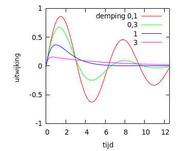 damped mass spring system impulse response